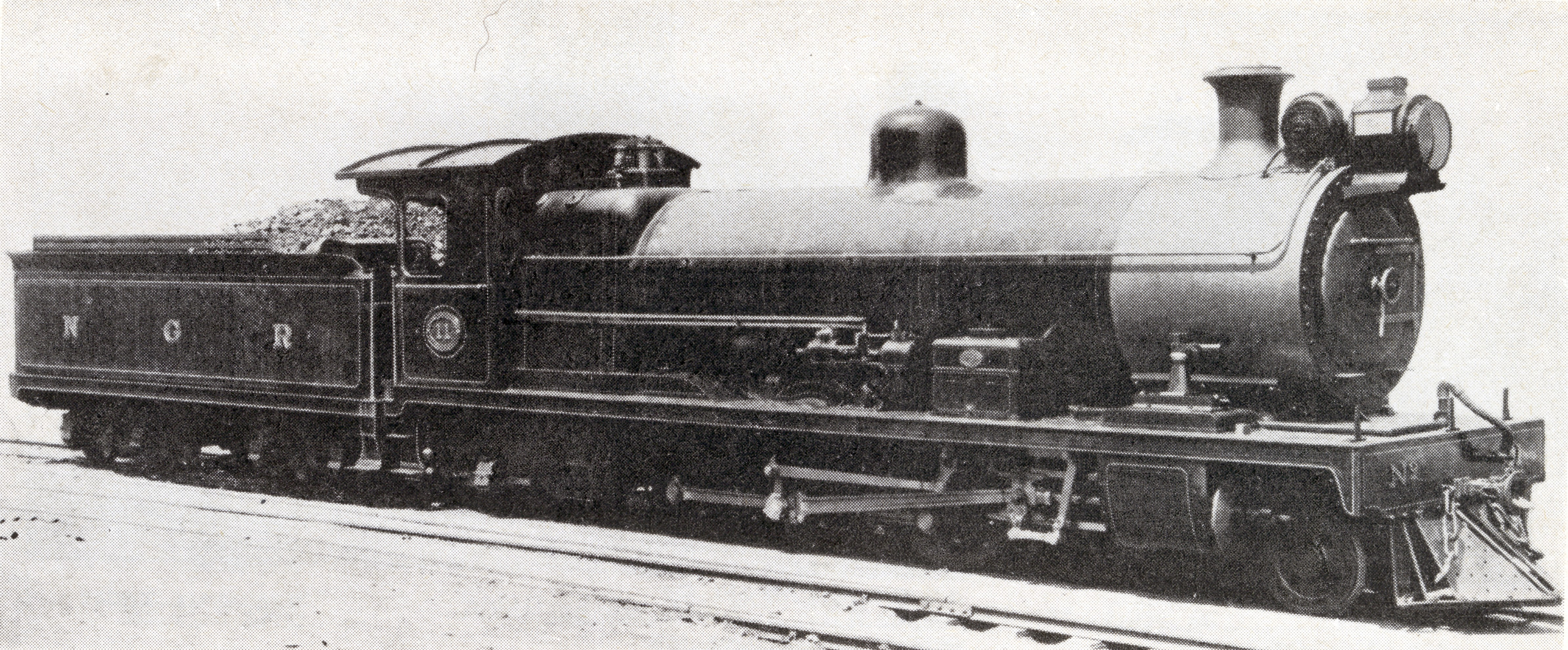 Class 2C 4-6-2 no. 11, designed and built by the Natal Government Railways